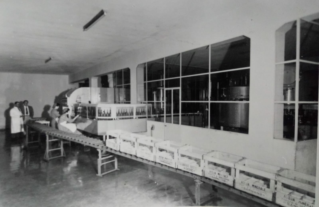 Bottling water Fonte S. Giacomo